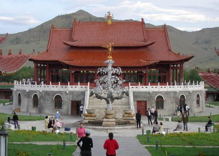 Mongol Castle, the central building with the "Silver Tree".